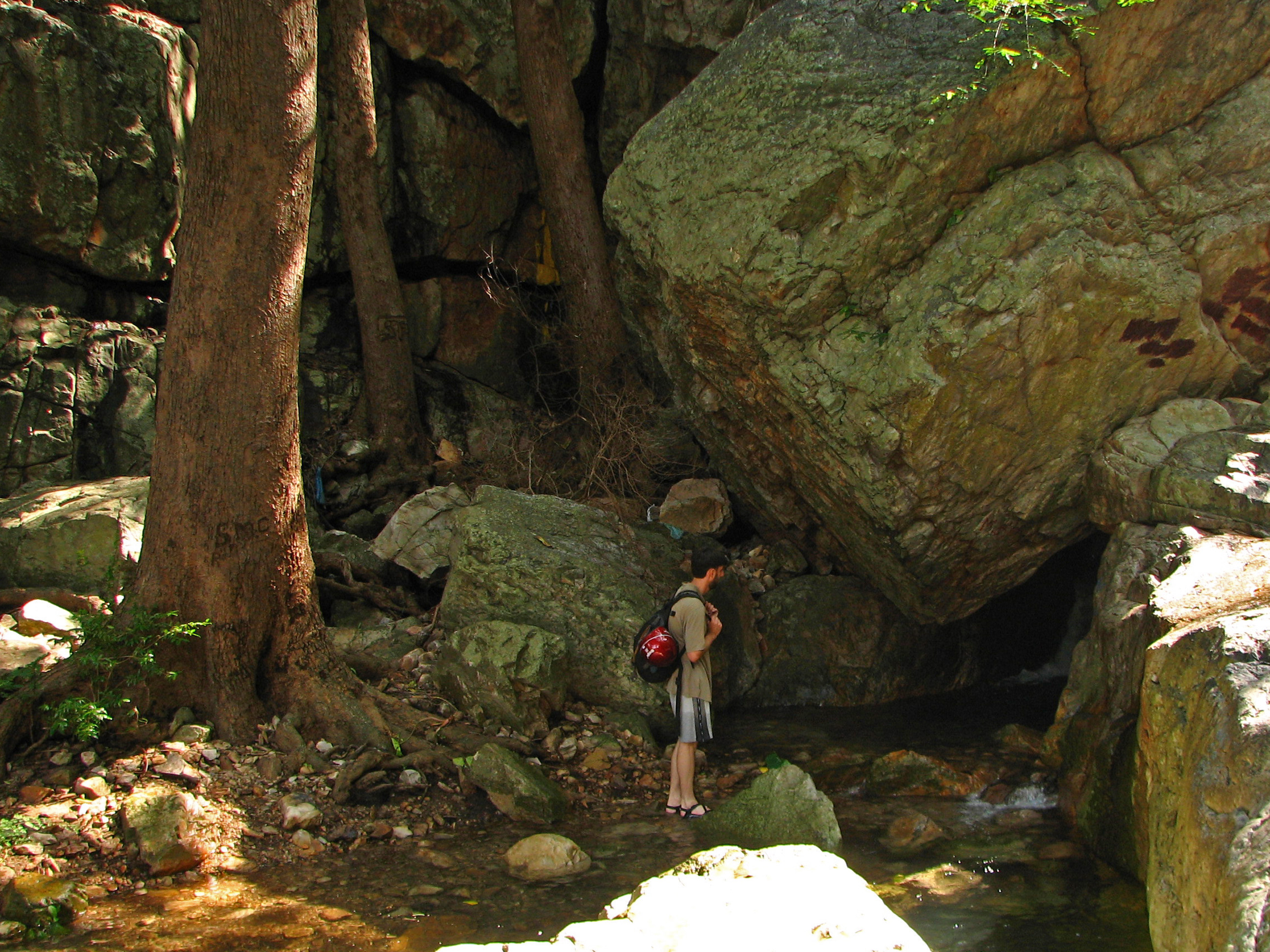 Trekking to Tada Falls, shortly after the lunch spot and Shiva temple, the trail disappears as the canyon narrows and you continue over rocks and often wading directly up the river. Good shoes are a must. The area, particularly in rainy season like it was here, is lush and cool, a world apart from bustling Chennai or agricultural rural Tamil Nadu.